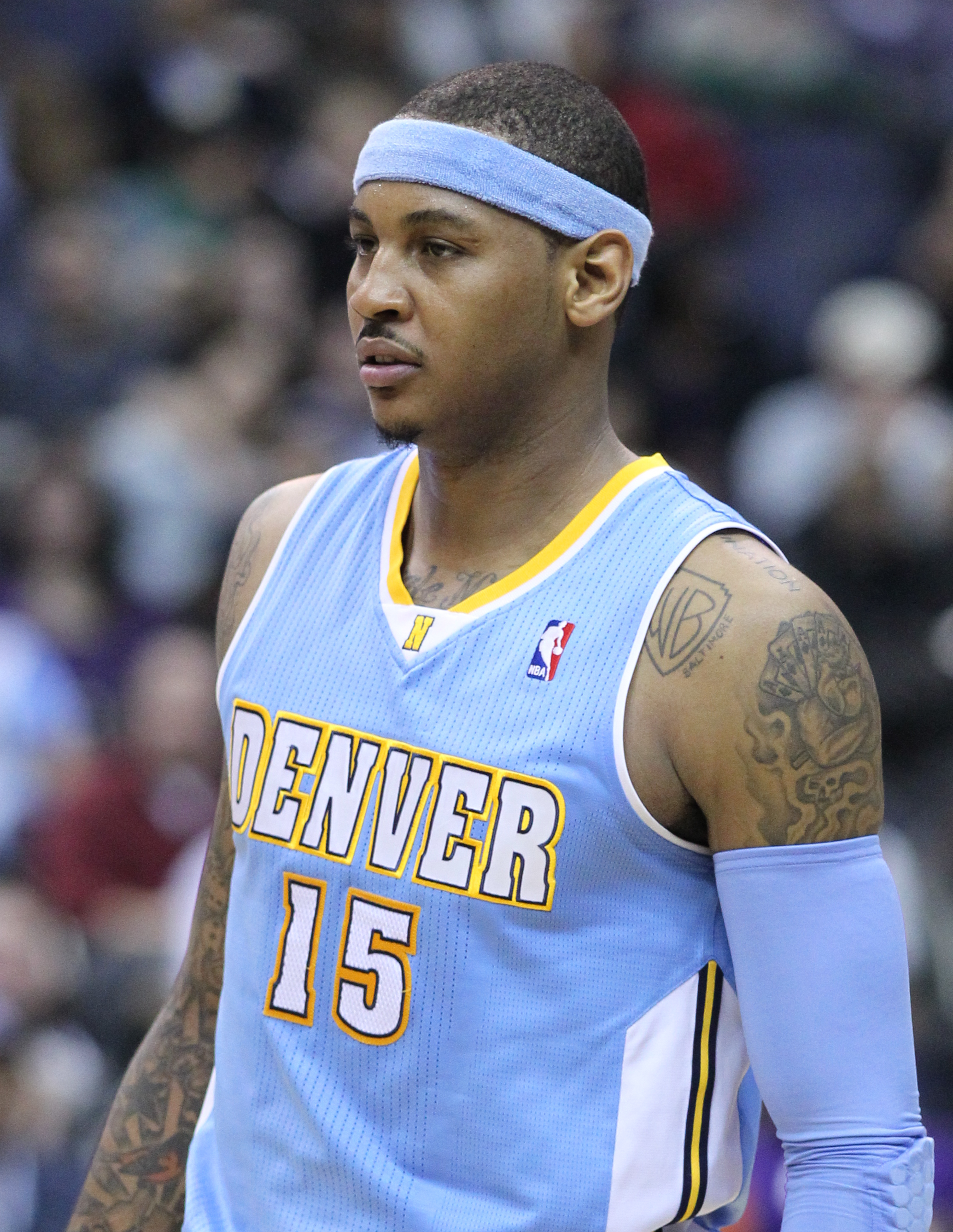 Carmelo Anthony playing with the Denver Nuggets